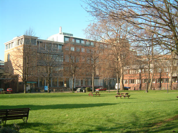 Queen Mary, University of London's Charterhouse Square site, home to student accommodation and departments of Barts and The London School of Medicine and Dentistry. Visible here: part of the John Vane Science Centre (Barts Cancer Institute), and the Wolfson Institute of Preventive Medicine (redbrick, right).